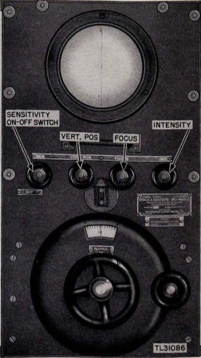 BC-403 oscilloscope used as the A-scope display in the U.S. Army SCR-270 radar system. Photograph with callouts is from the service manual for the radar, War Department Technical Manual TM-11-1510, page 58. Controls include: Sensitivity, with an on-off switch, vertical position, focus, intensity and a large hand wheel that controls a phase shifter which can be used to determine a targets range. The last is accomplished by moving the target's pip under the vertical line on the face of the CRT.